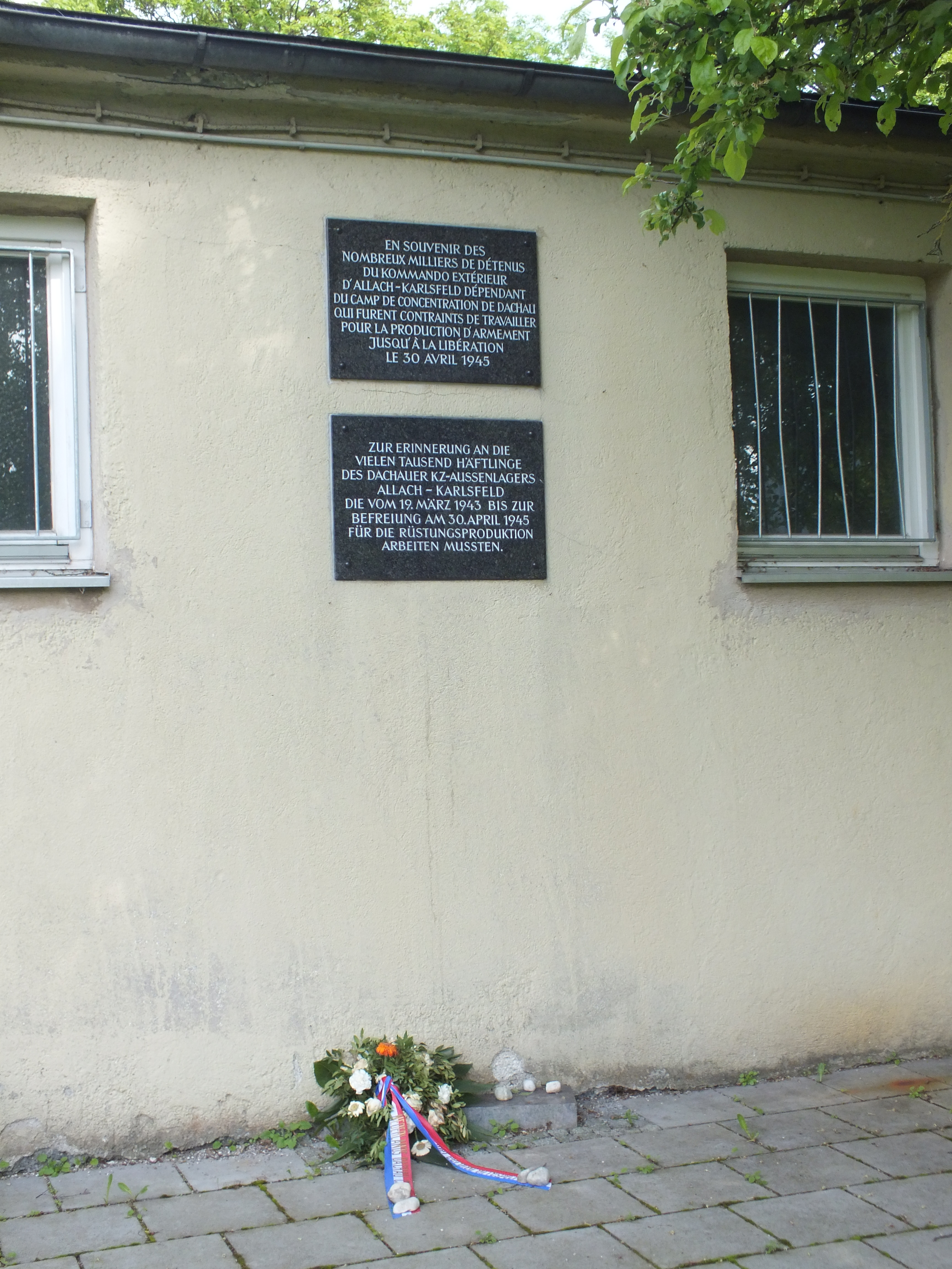 Last existing buildings of subcamp Allach of Nazi concentration camp Dachau, location Munich, Granatstraße 8 + 10